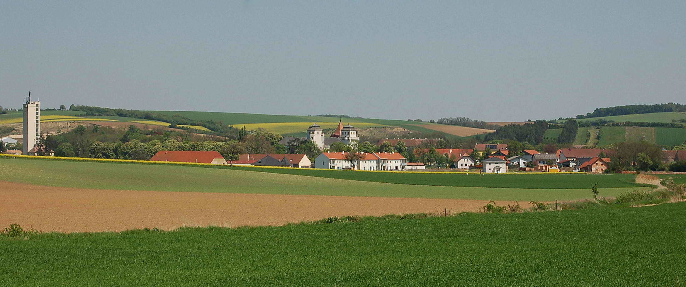 View of Asparn an der Zaya, Lower Austria, from the west